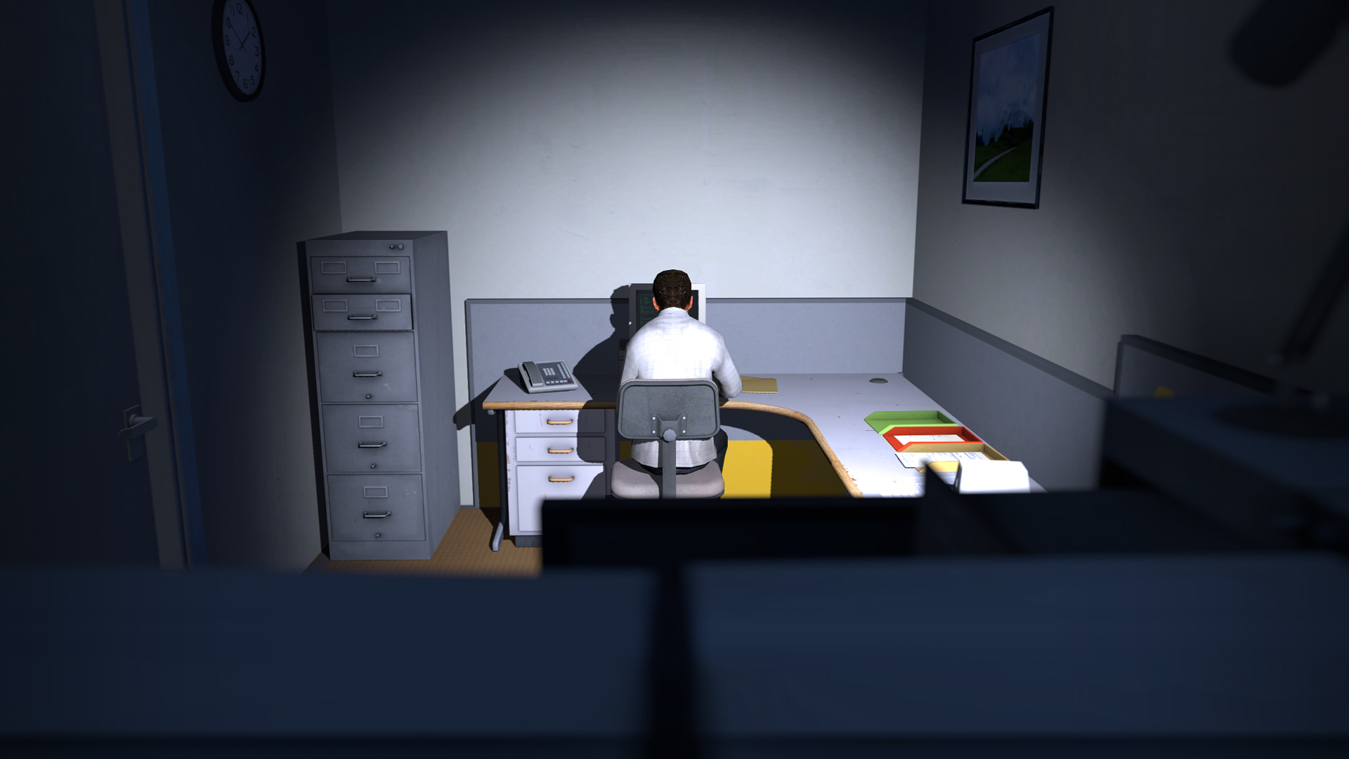 The Stanley Parable screenshot. Released in 2013, the game was developed by Galactic Cafe.